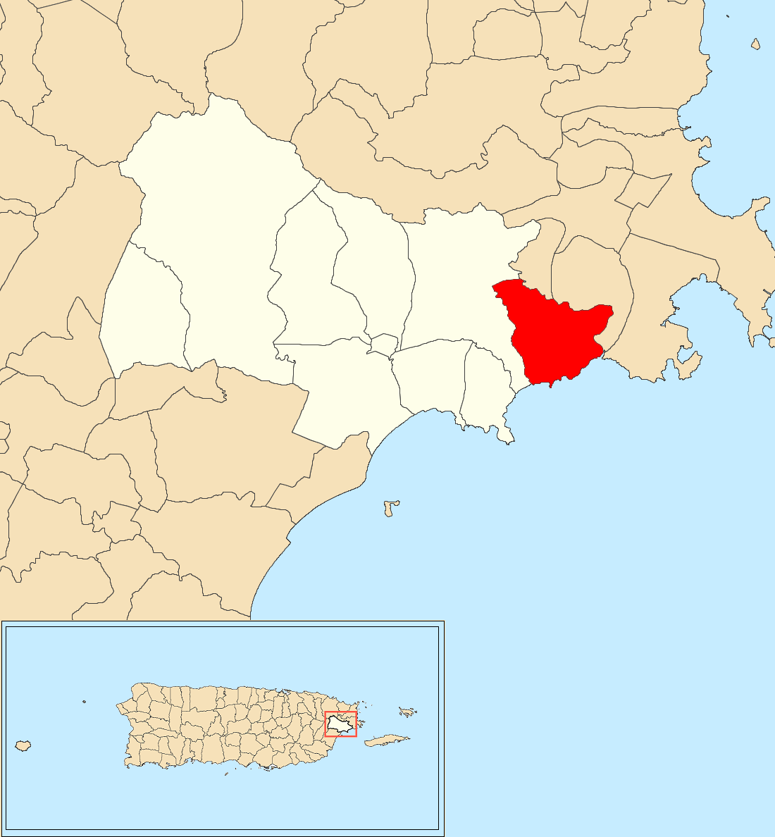 Daguao, Naguabo, Puerto Rico locator map